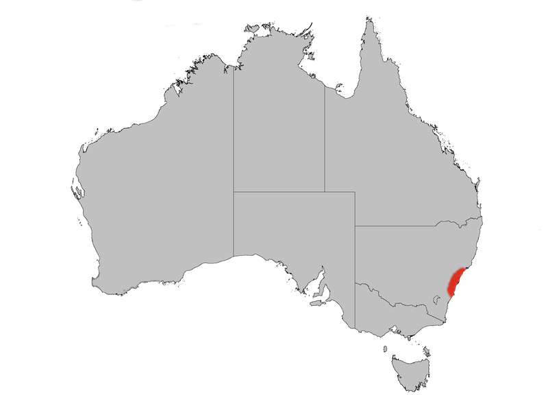 Distribution of Telopea speciosissima based on information from Australian National Botanic Gardens[1], [2] orginally from Crisp, Michael D.; Weston,Peter H. (1995) "Telopea " in McCarthy, Patrick (ed.) , ed. Flora of Australia: Volume 16: Eleagnaceae, Proteaceae 1, CSIRO Publishing / Australian Biological Resources Study, p. 467 ISBN: 0-643-05693-9.